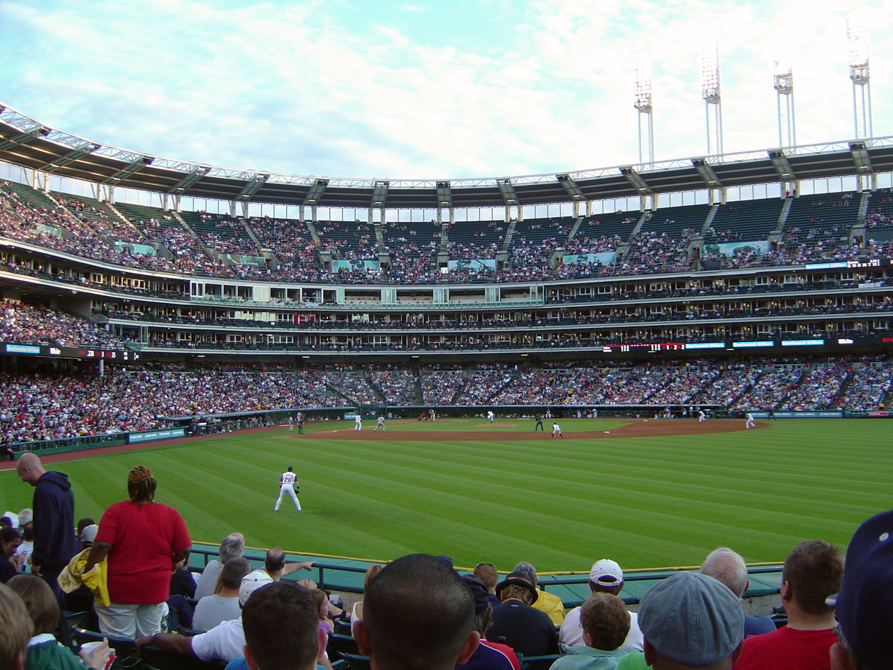 Jacobs Field in Cleveland, Ohio